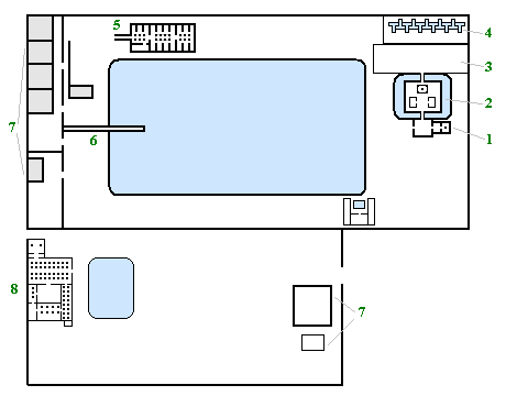 Plan of the Maru-Aten complex and gardens in the ancient Egyptian city Akhet-Aten; today lost under modern cultivation in the Amarna area.